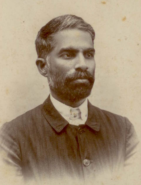 Acharya Dharmananda Damodar Kosambi (October 9, 1876 – June 24, 1947) was a prominent Buddhist scholar and a Pāli language expert.